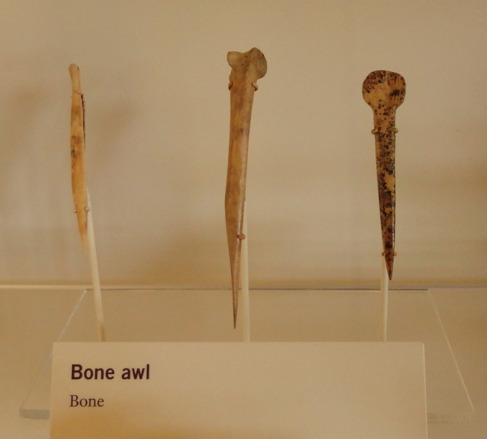 Ancestral Puebloan bone awls, American Museum of Natural History, on loan to Aztec Ruins National Monument, New Mexico